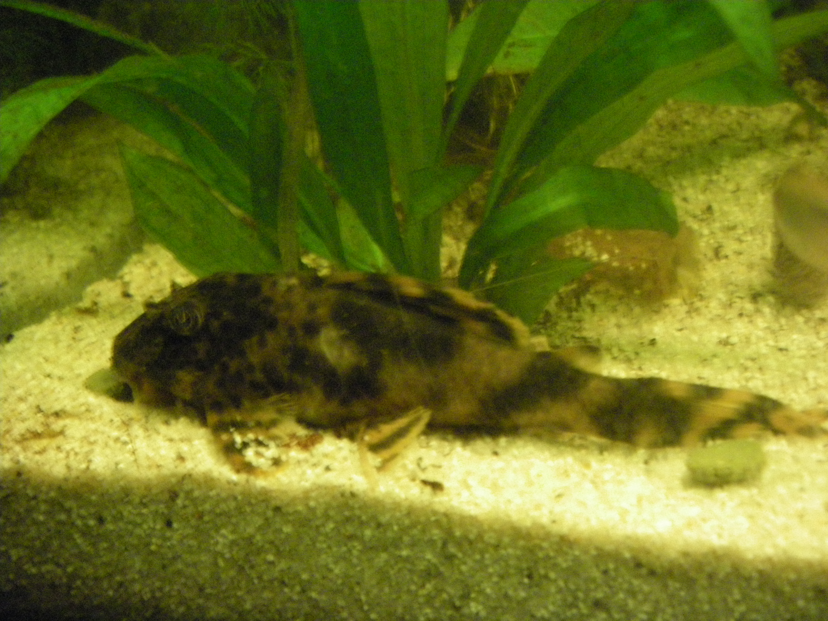 photo of a peckoltia brevis female living in my aquarium